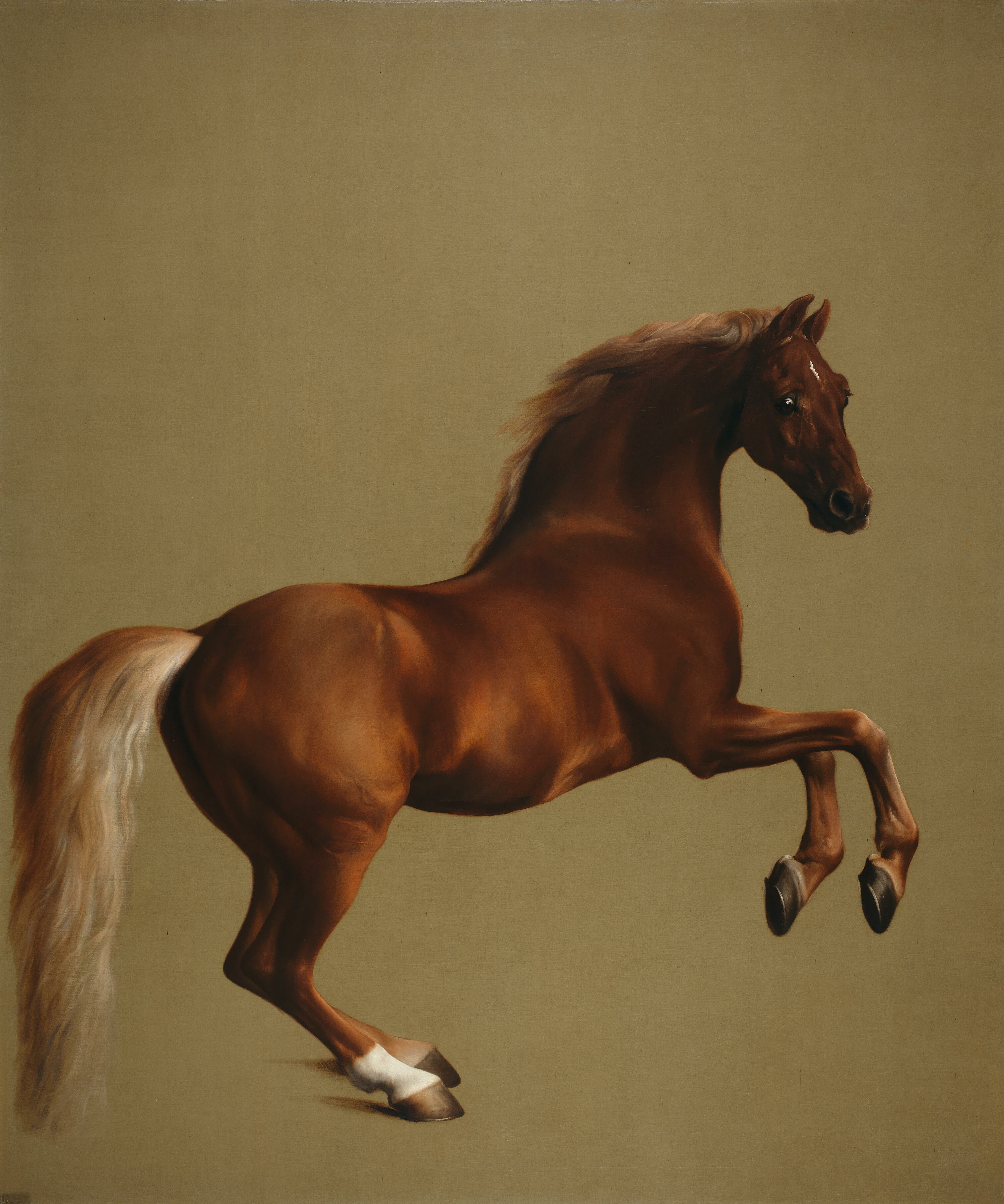 Whistlejacket is an oil-on-canvas painting from about 1762 showing the Marquess of Rockingham's racehorse, rearing up against a blank background.Edited by uploader from National Gallery scan to add lost "brownspace" to the left and right of the painting.